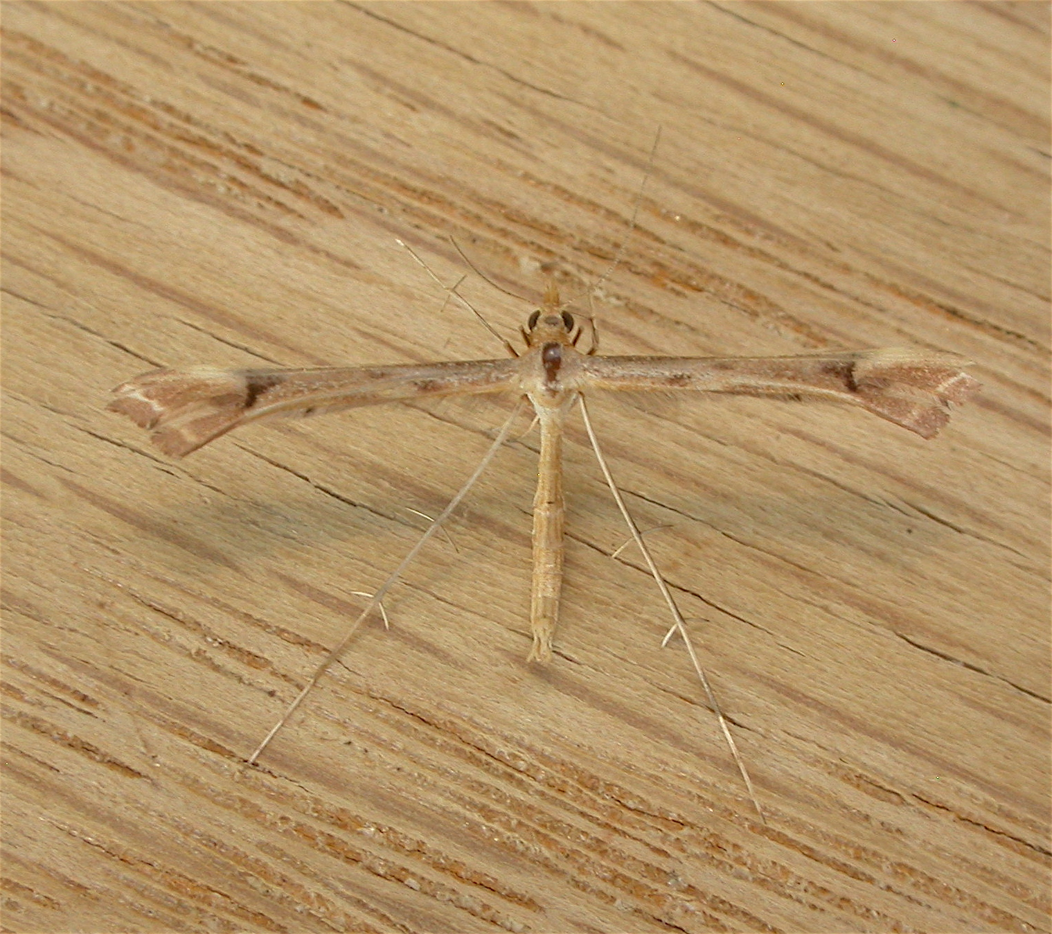 Sinpunctiptilia emissalis (Walker, 1864), to MV light, Aranda, ACT, 27/28 January 2009